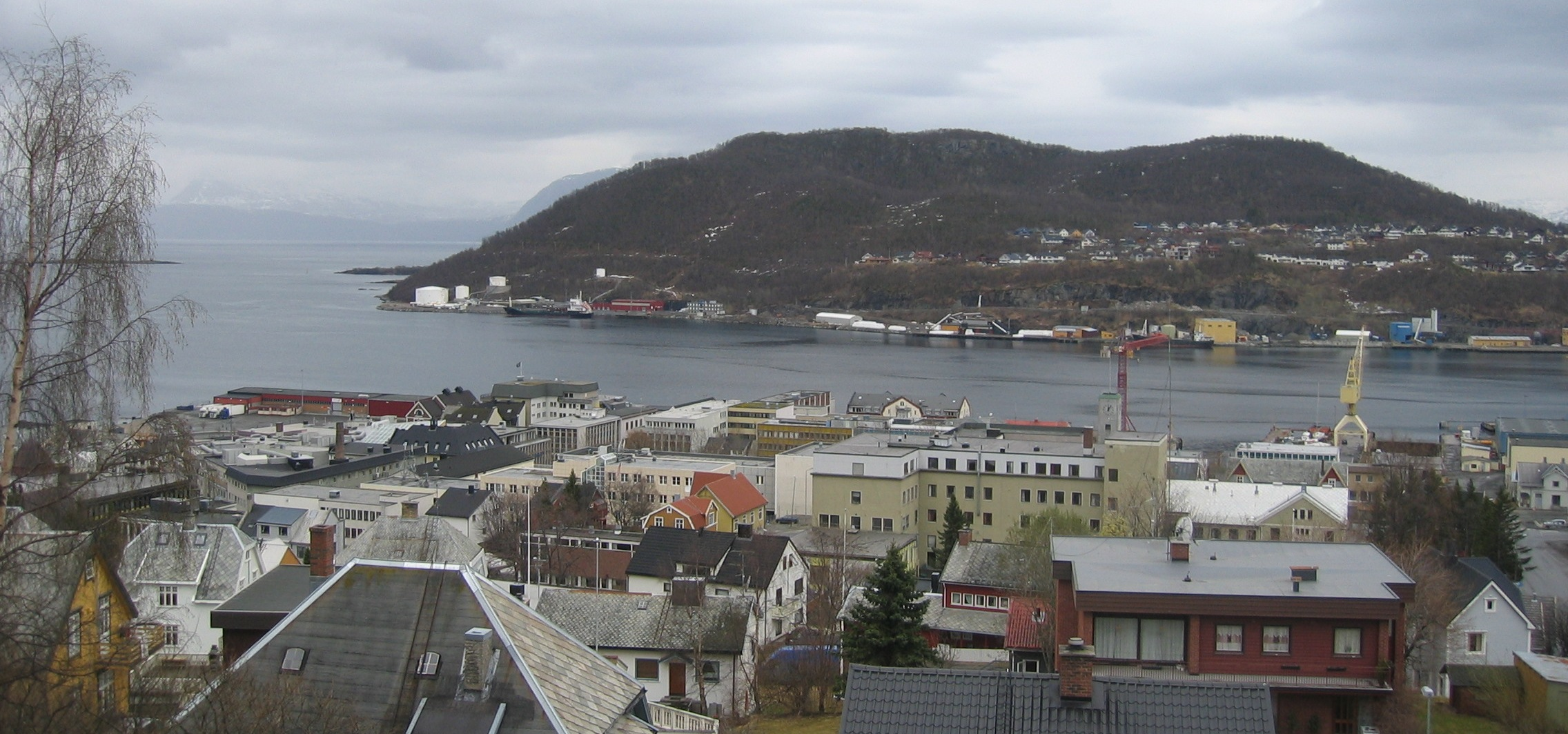 Centre of Harstad, Norway